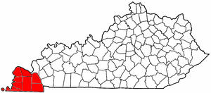 Public domain map courtesy of The General Libraries, The University of Texas at Austin, modified to show counties. See Wikipedia:U.S. county maps.